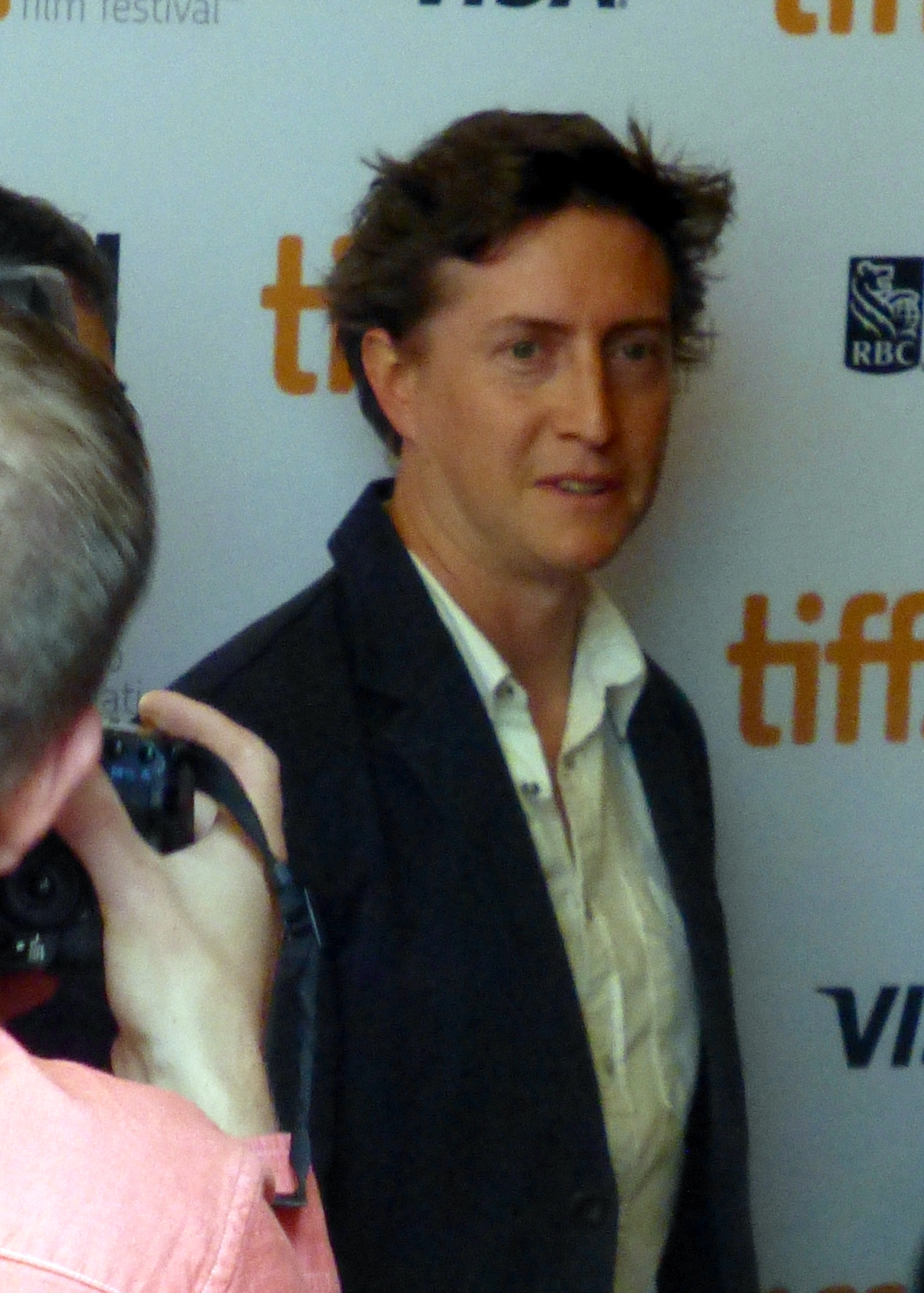 David Gordon Green at the premiere of Manglehorn, 2014 Toronto Film Festival